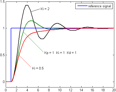 Change of response of second order system to a step input for varying Ki values. Prepared for use in PID controller article.